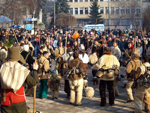 Kukeri in village Sopitsa, Bulgaria